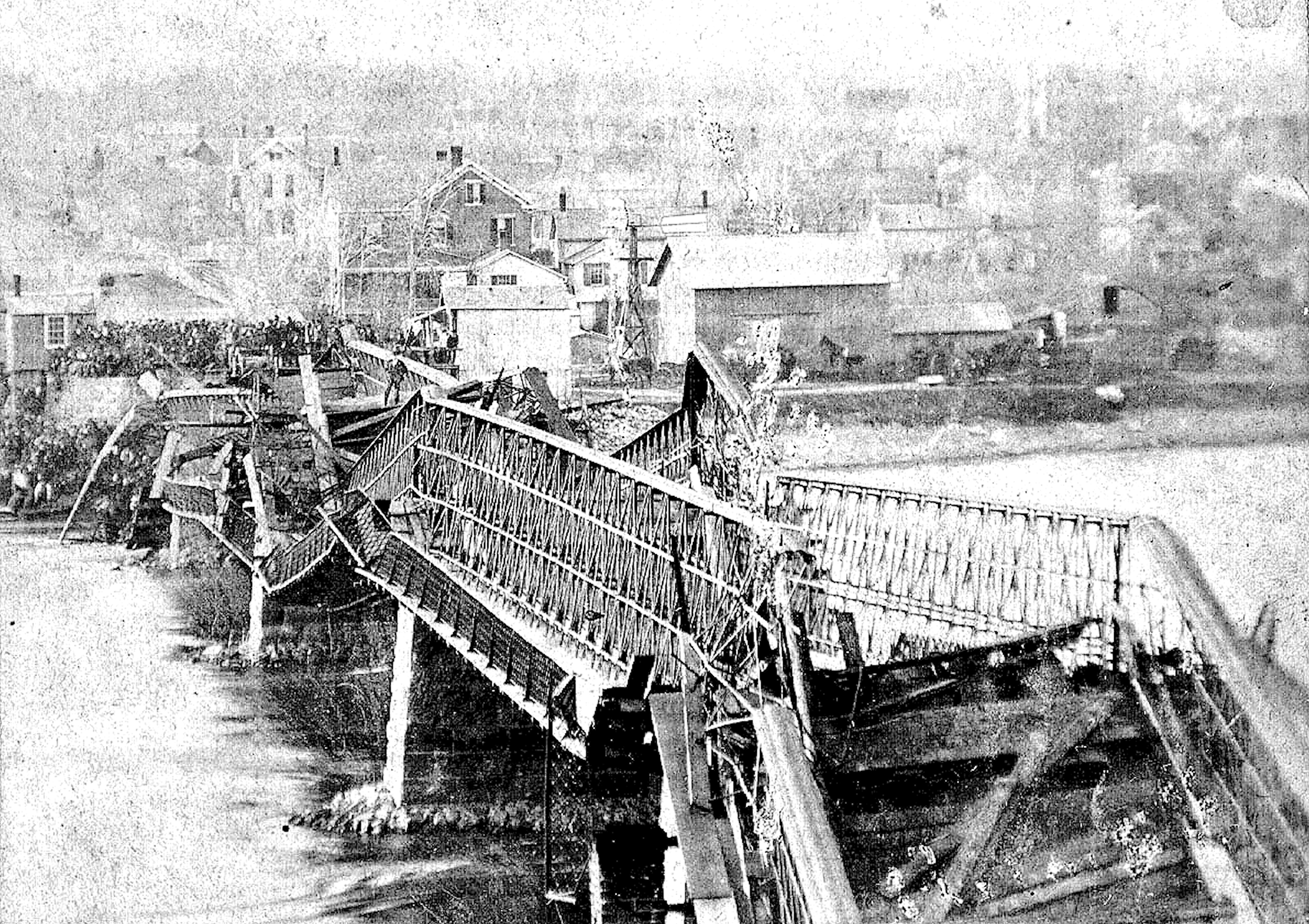 The Truesdell Bridge Collapse, view from downtown Dixon, looking north